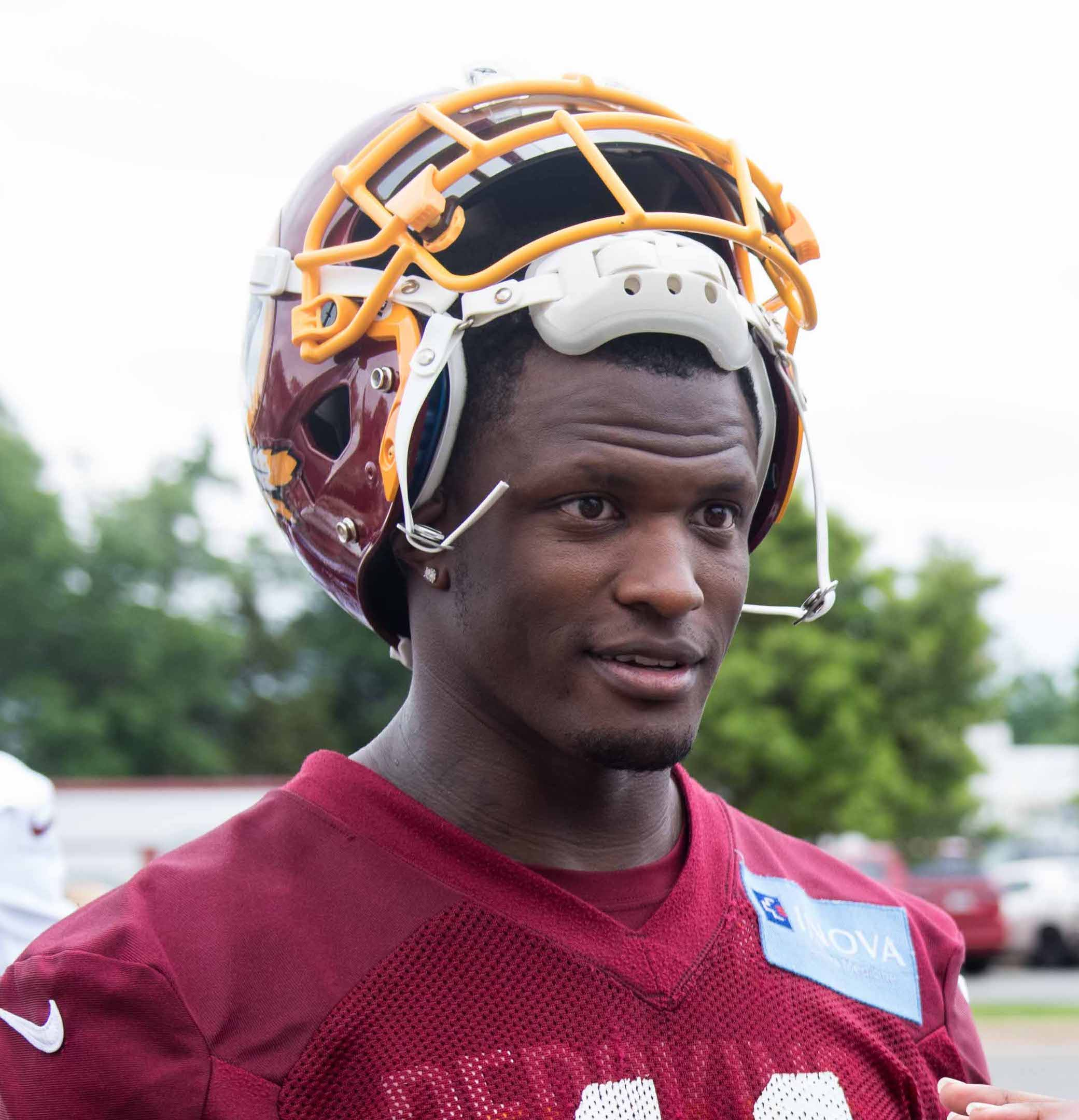 Washington Redskins cornerback, Will Blackmon, signing autographs for the Washington Redskins Salute to Service Day at the Inova Sports Performance Center at Redskins Park on May 24, 2017.